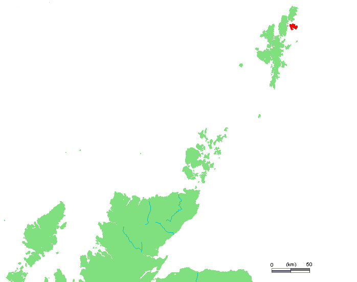 VK Fetlar.PNG (Orkney and Shetland islands, UK)